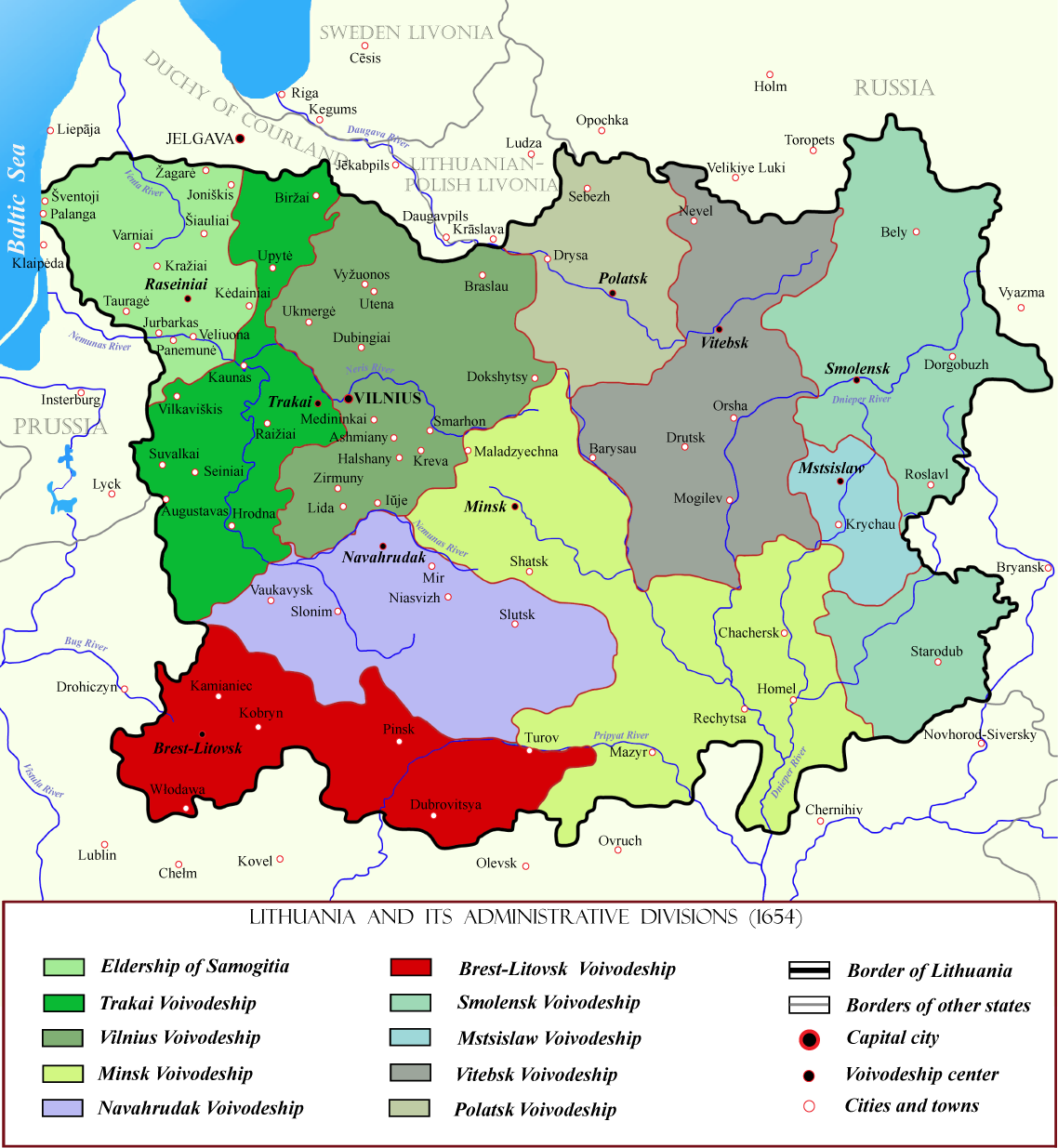 Brest Litovsk Voivodeship (red) within Lithuania in the 17th century